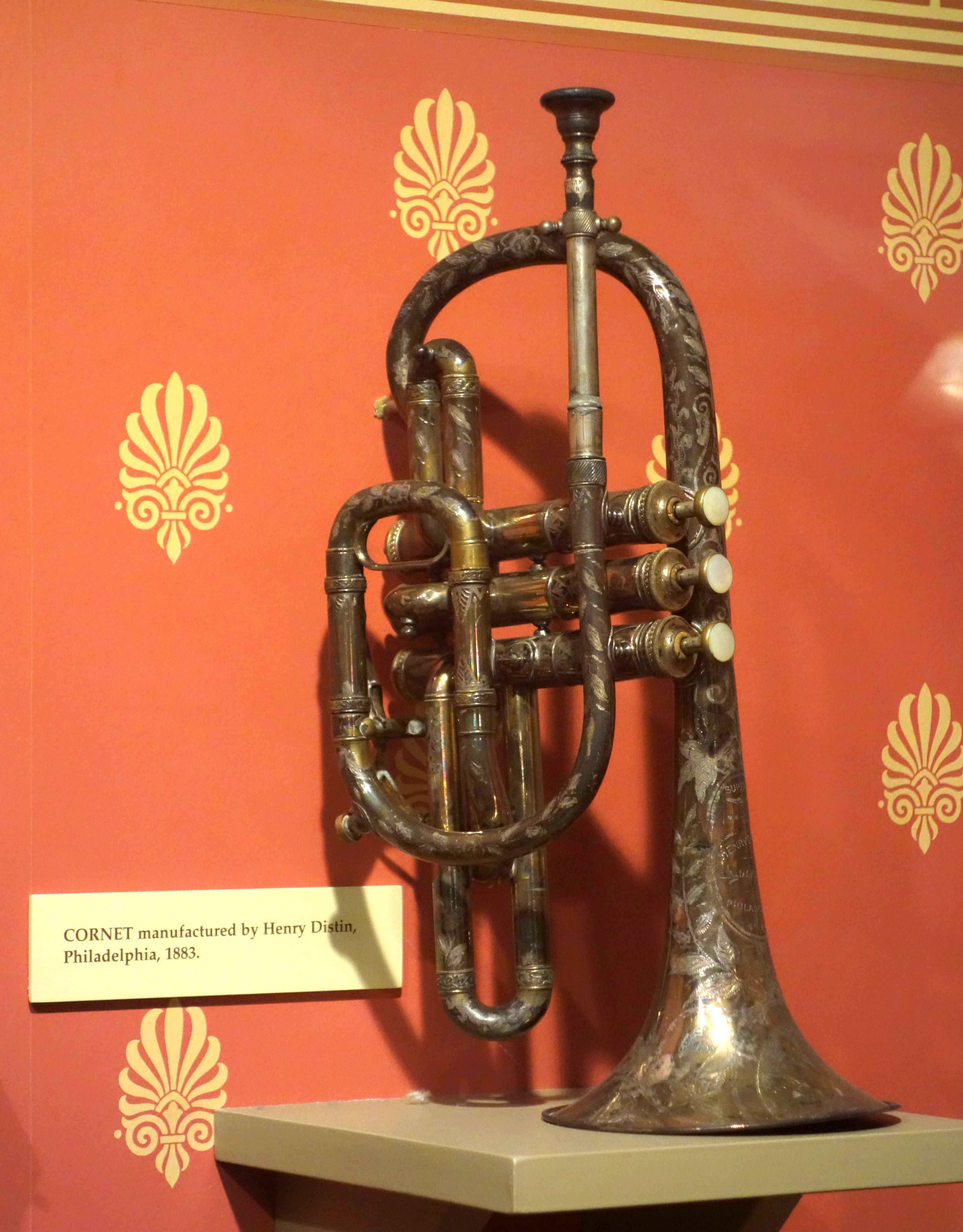 Exhibit in the Wisconsin Historical Museum, Madison, Wisconsin, USA. This item is old enough so that it is in the public domain. CORNET manufactured by Henry Dustin, Philadelphia, 1883.